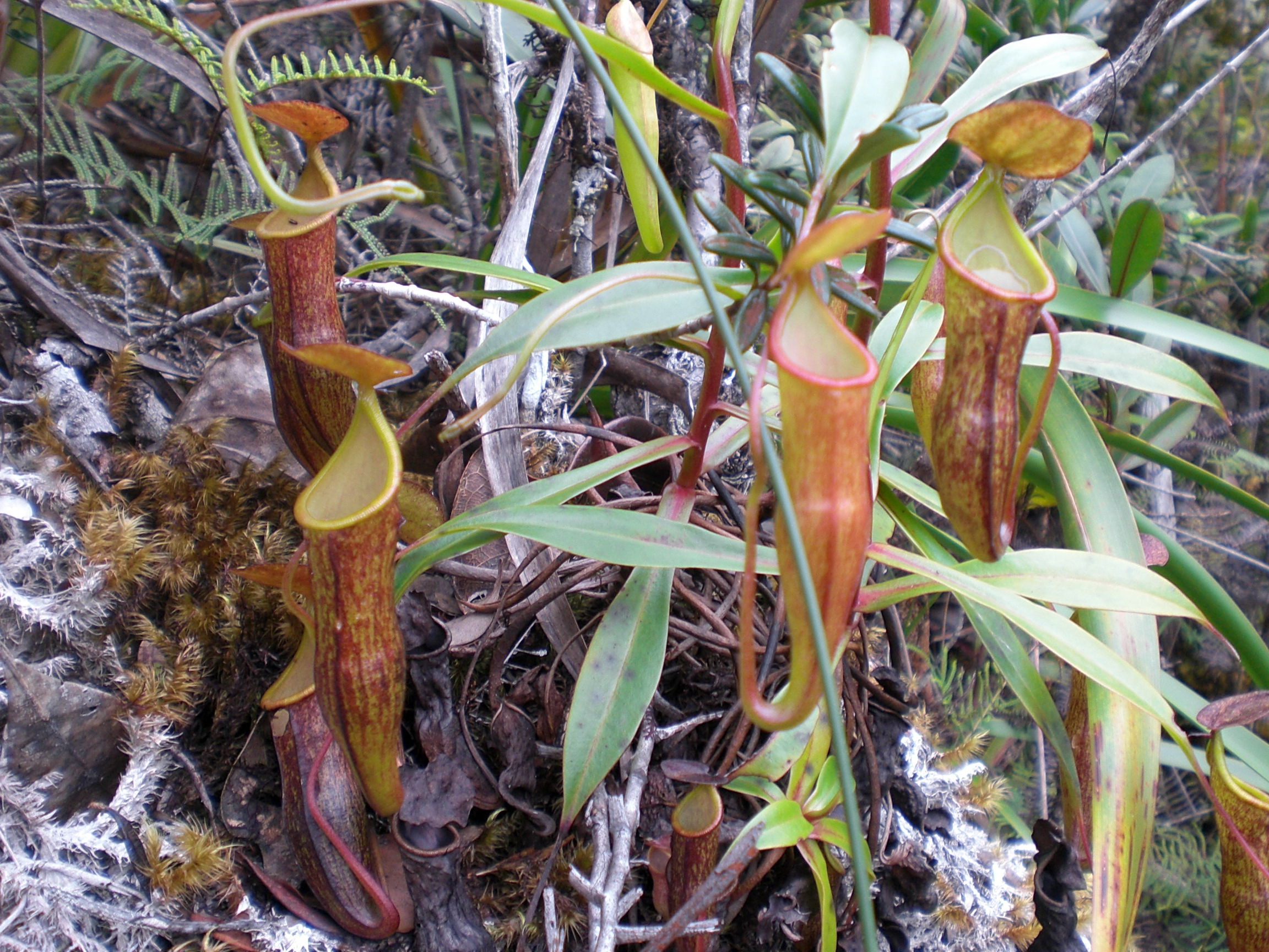 Nepenthes micramphora (endemic Pitcher plant). Found in Mount Hamiguitan Range, San Isidro, Davao Oriental Province, Mindanao region in the southern Philippines. Taken from Nov 29-Dec 1, 2009.